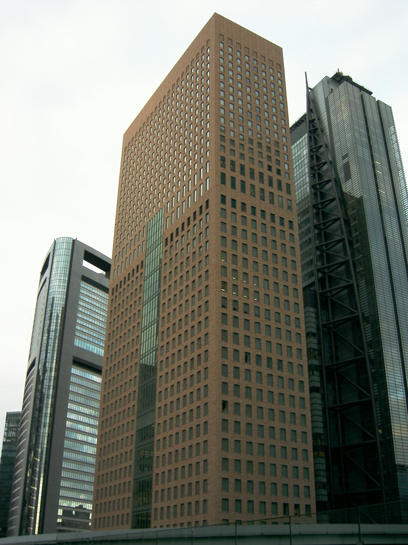 Royal_Park_Shiodome_Tower_Building Tokyo Japan